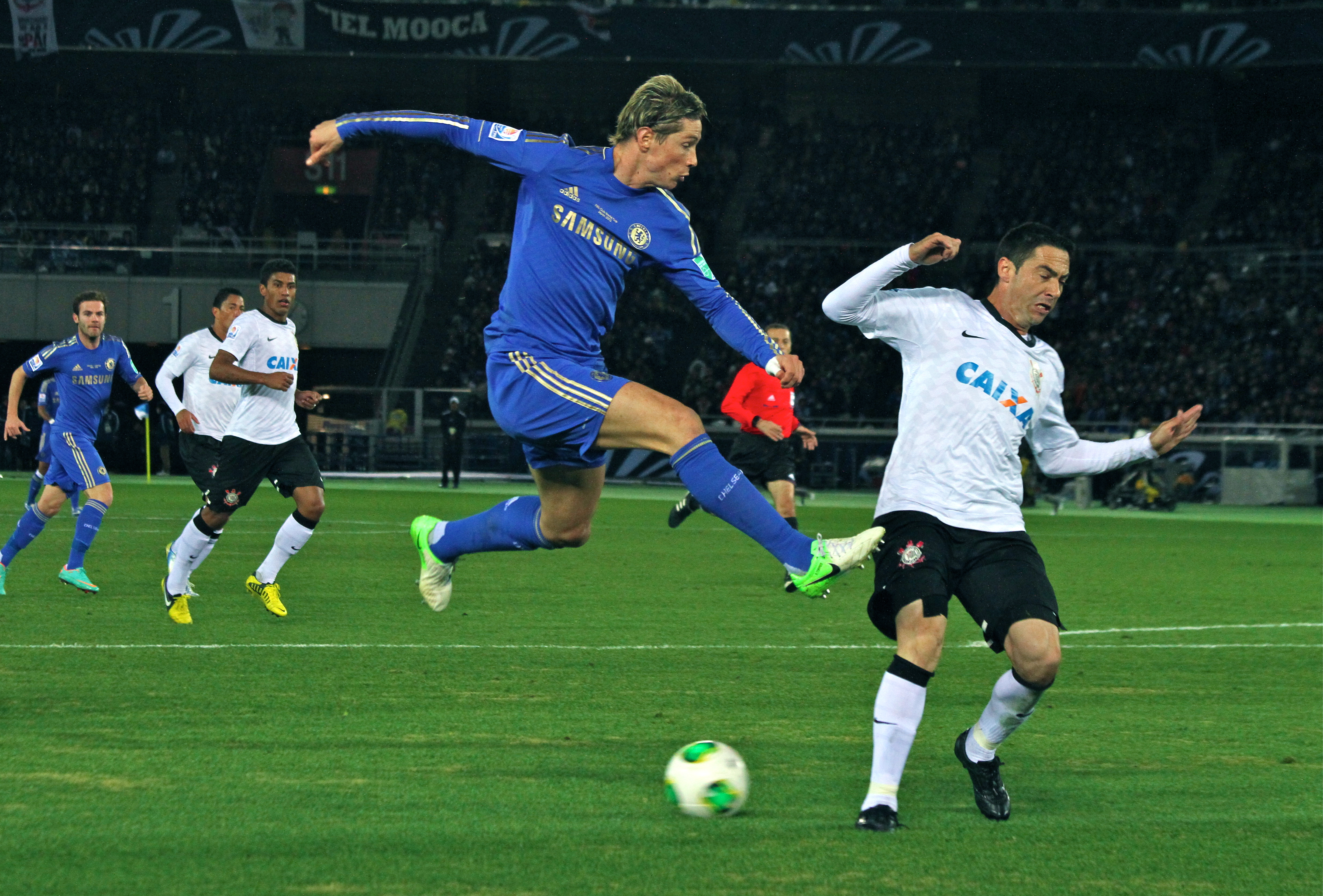 Fernando Torres of Chelsea.